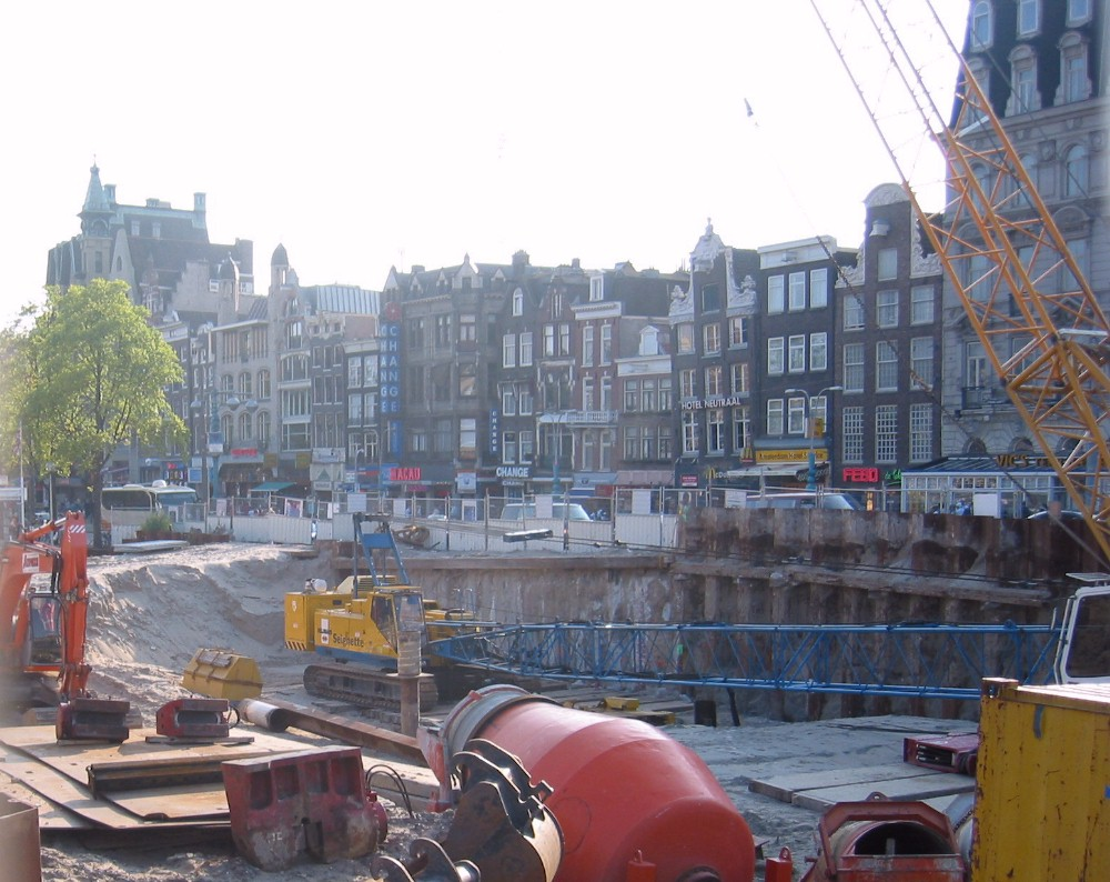 Construction site of the Noord/Zuidlijn (North/South line) of the Amsterdam metro, at the Damrak (near Central Station). Own photo, taken on 2004-07-28.